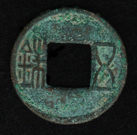 Summary A bronze coin (5 Shu, 五銖) of the Han Dynasty (China) - circa 1st century BCE. The most mass circulated coin in Han China. From the private collection of Randy Benzie